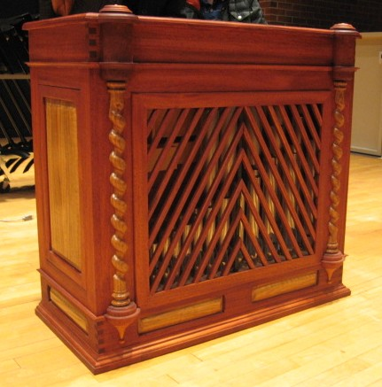 Positive Organ New England Organbuilders